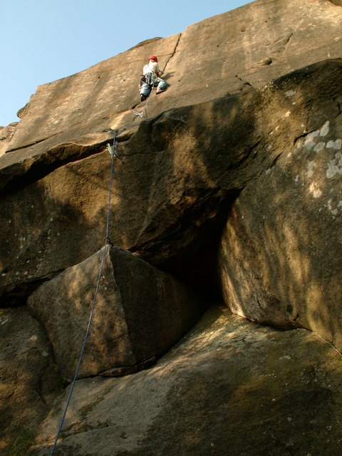 A climber on Tody's Wall Froggatt Edge The climb is 18 metres at grade HVS 5a.